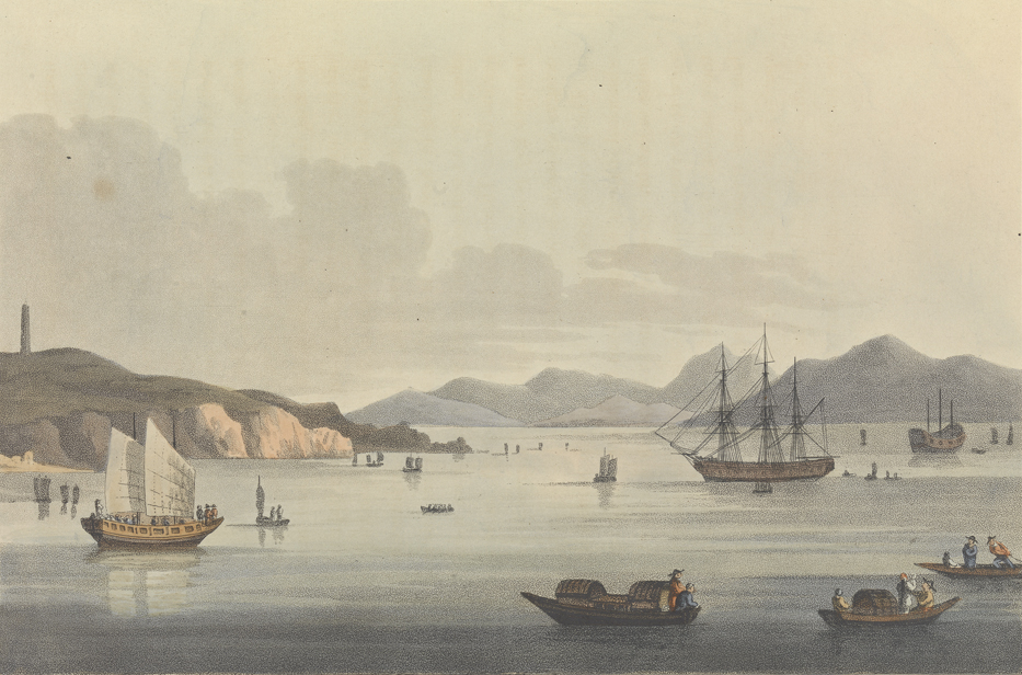 View looking up the Bocca Tigris to the 2nd Bar Pagoda.